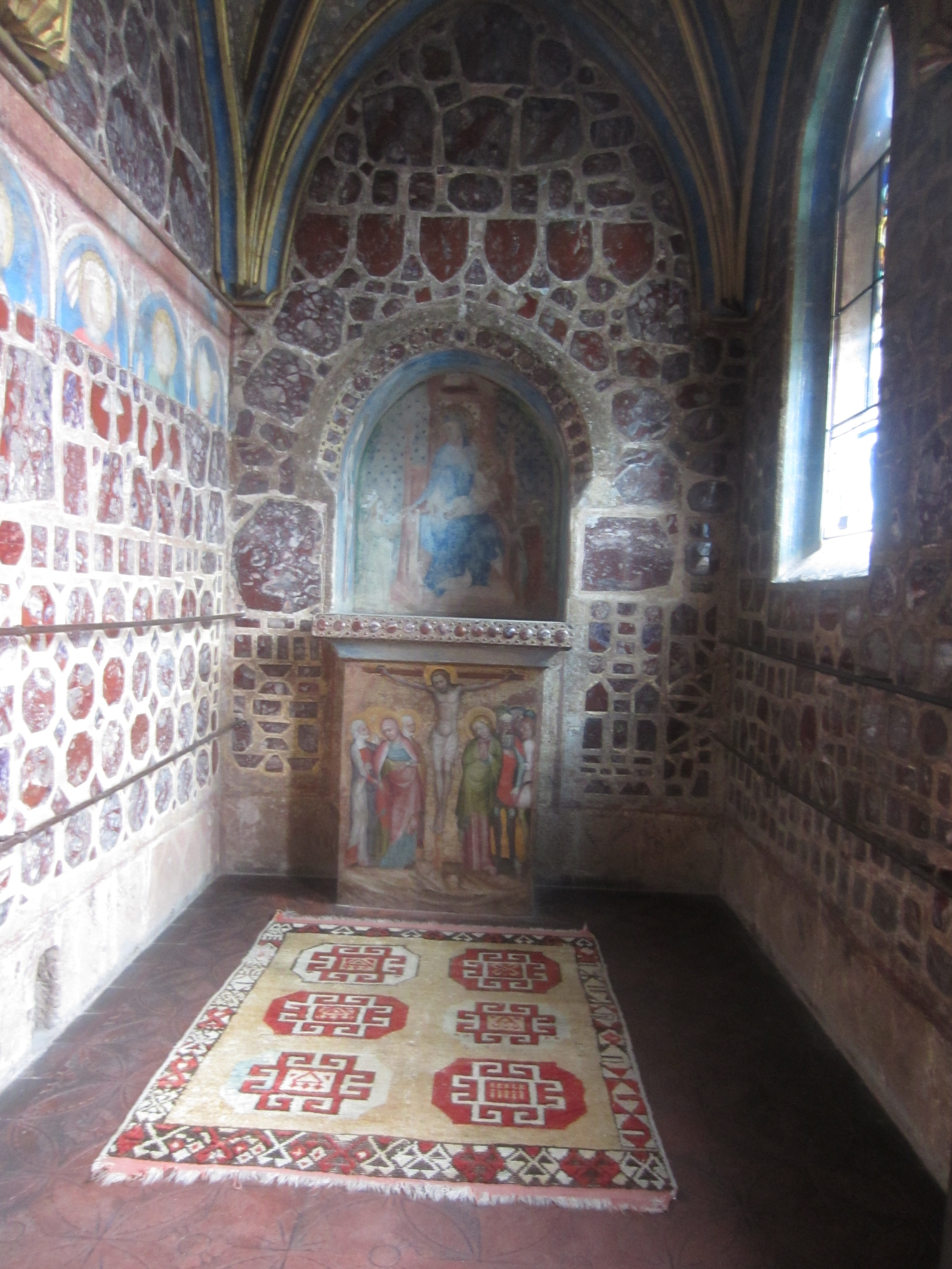 Chapel of the Holy Cross at Karlštejn Castle